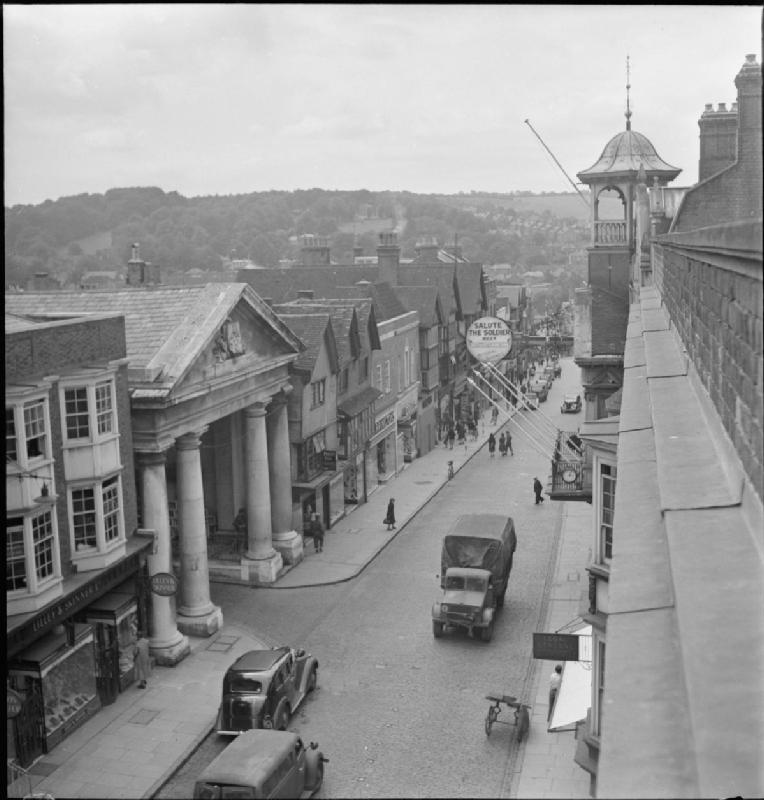 Guildford- Everyday Life in Wartime Guildford, Surrey, England, UK, 1945 A view of Guildford High Street, showing the Corn Exchange on the left and the Guildhall on the right. Several civilians can be seen going about their daily business, and three cars are also visible. The circular sign on the right hand side advertises 'Salute the Soldier Week, 10th-17th June 1944'. Also visible are 'Lilley and Skinner' shoe shop, 'Peggy's Tea Rooms', and 'Dolcis' shoe shop. The town clock reads 3:05pm.